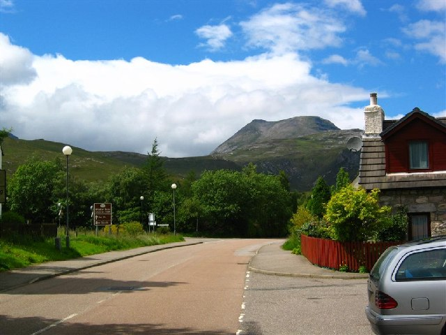 A832, Kinlochewe, northbound. This photo was taken at 12:52 on the 18th June, 2004, outside the Village Stores, looking north with the Glen Torridon turning ahead on the left. The eastern summits of Ben Eighe are in the background.